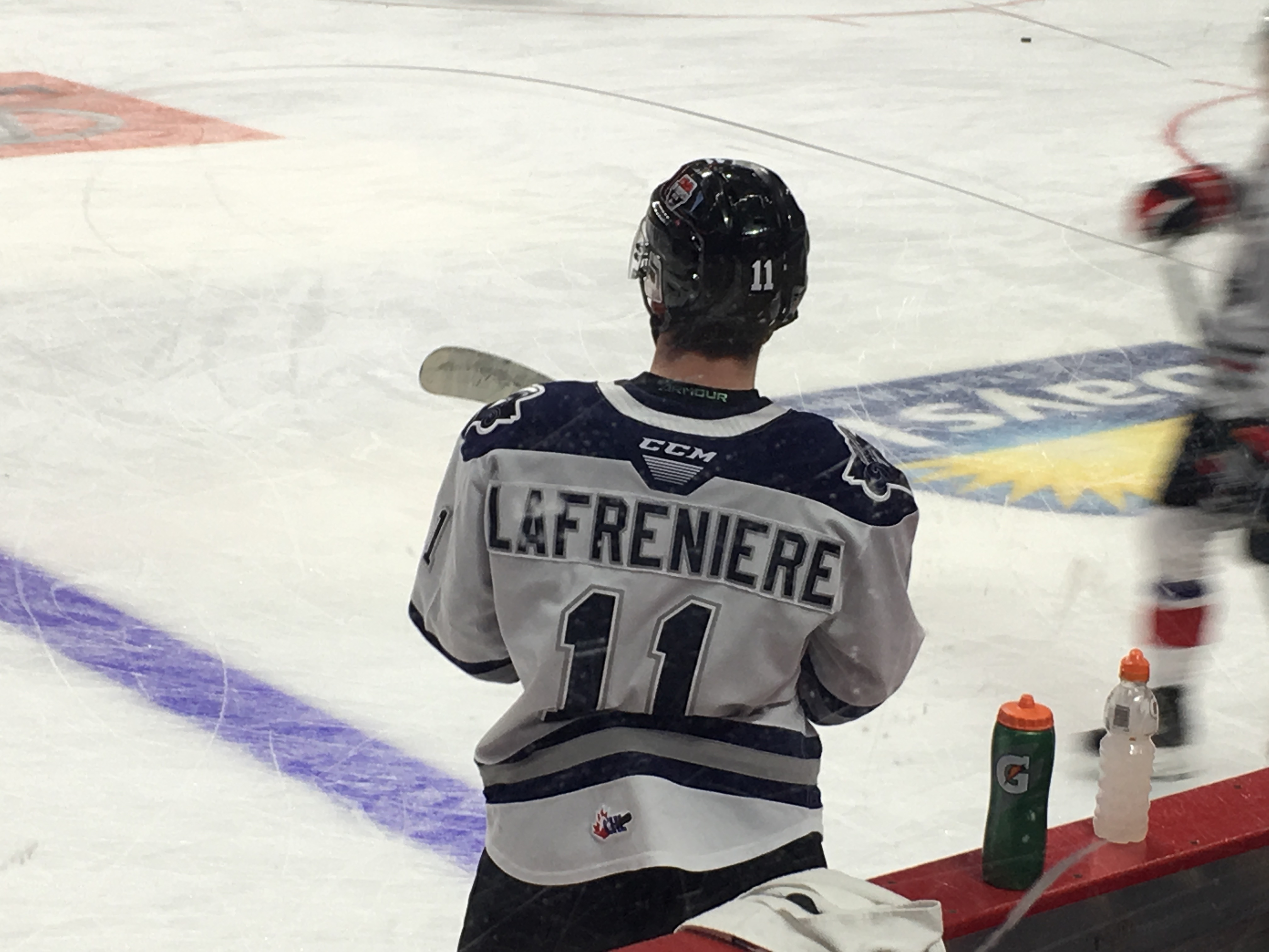 Alexis Lafreniere during warmups at the 2020 Kubota CHL/NHL Top Prospects Game in Hamilton, Ontario. - January 16, 2020